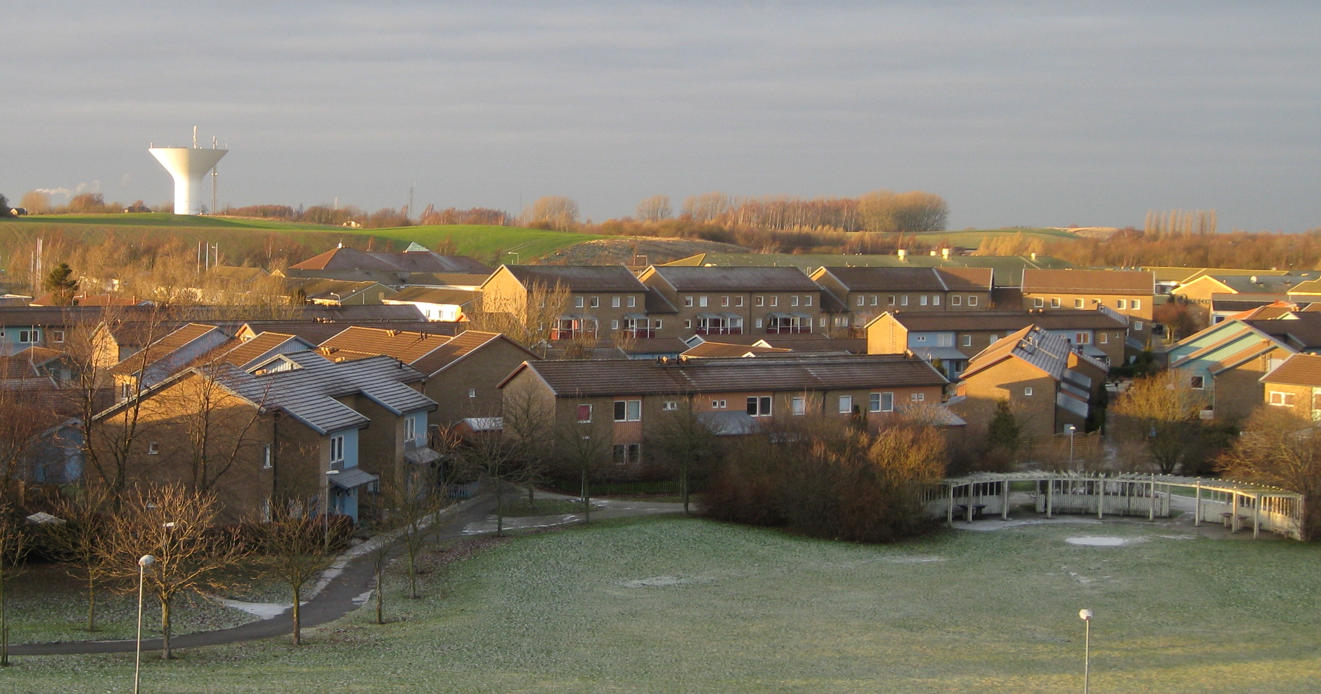 View of Oxievång, Oxie, Malmö, Sweden